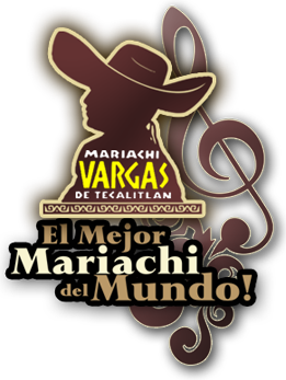 Emblem of Mariachi Vargas de Tecalitlán.